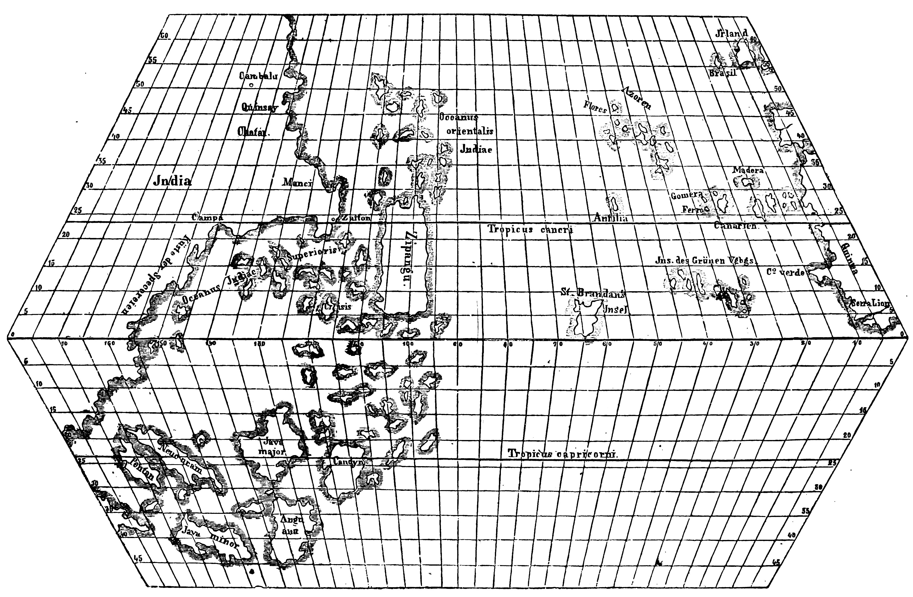 Scan from "Narrative and critical history of America, Volume 2" by Justin Winsor. Scans for whole book are at